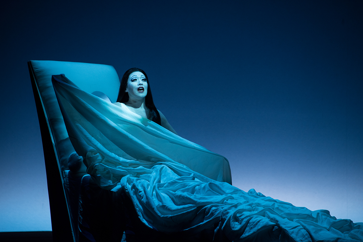 La Traviata, Musiktheater Linz, September 2015, director and set designer: Robert Wilson, costumes: Yashi, Violetta is dying